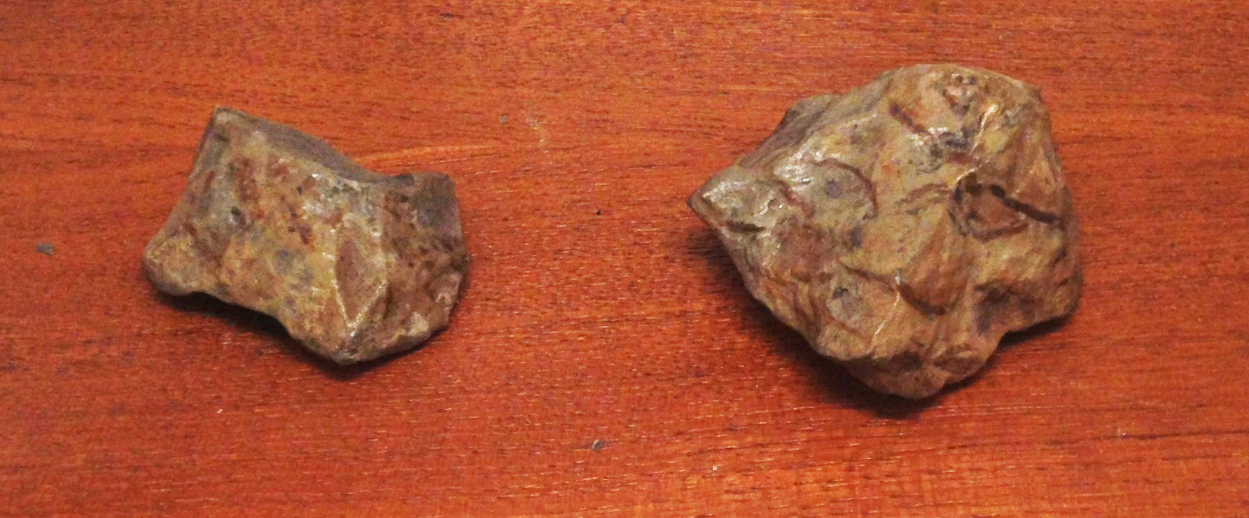 Casts of stone tools of Yuanmou Man (Homo erectus yuanmouensis), found in China. The casts are owned by Shanghai Natural History Museum.